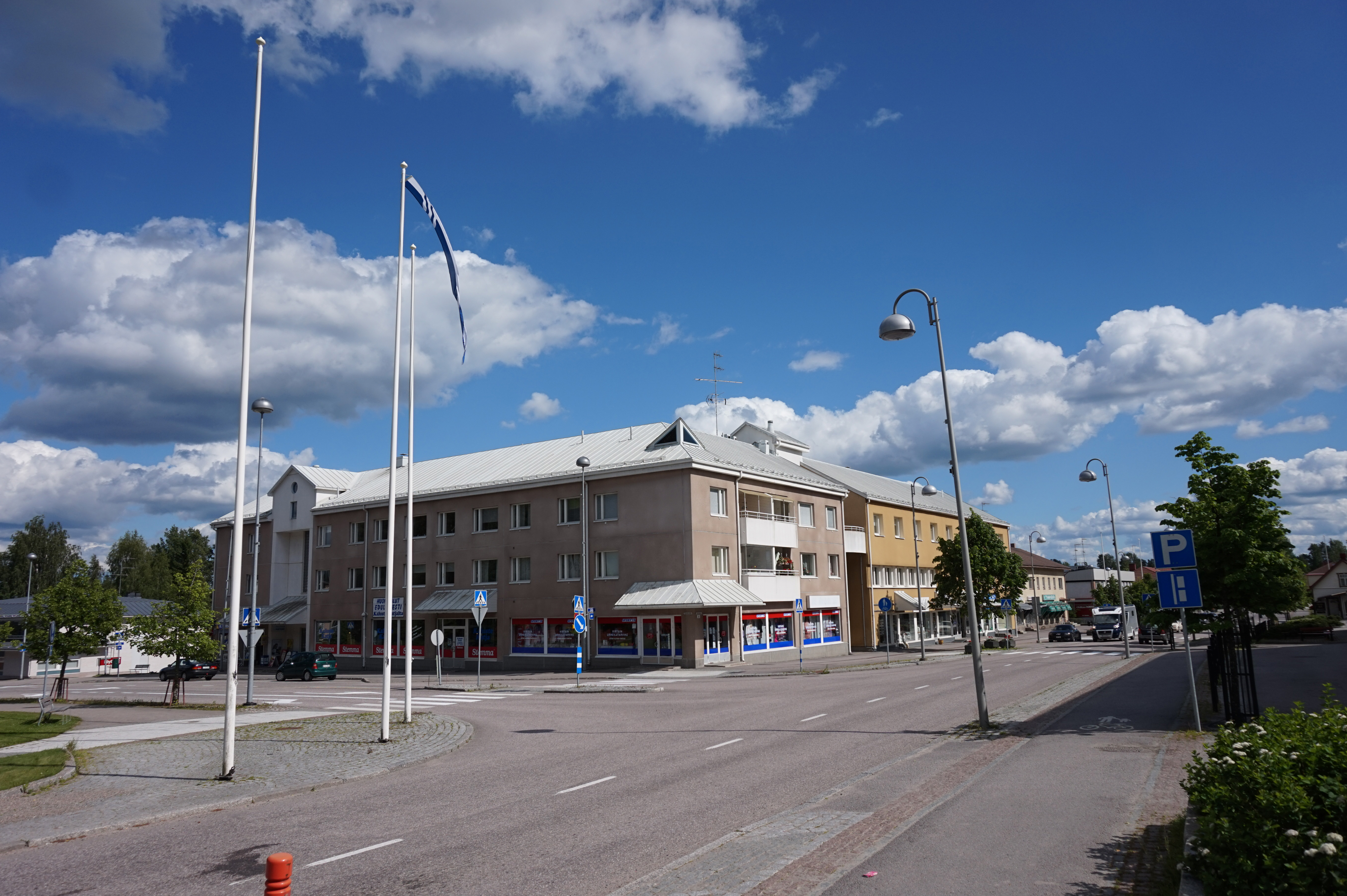 Street Virtaintie, Virrat.This photograph was taken with a Sony ILCE-5000